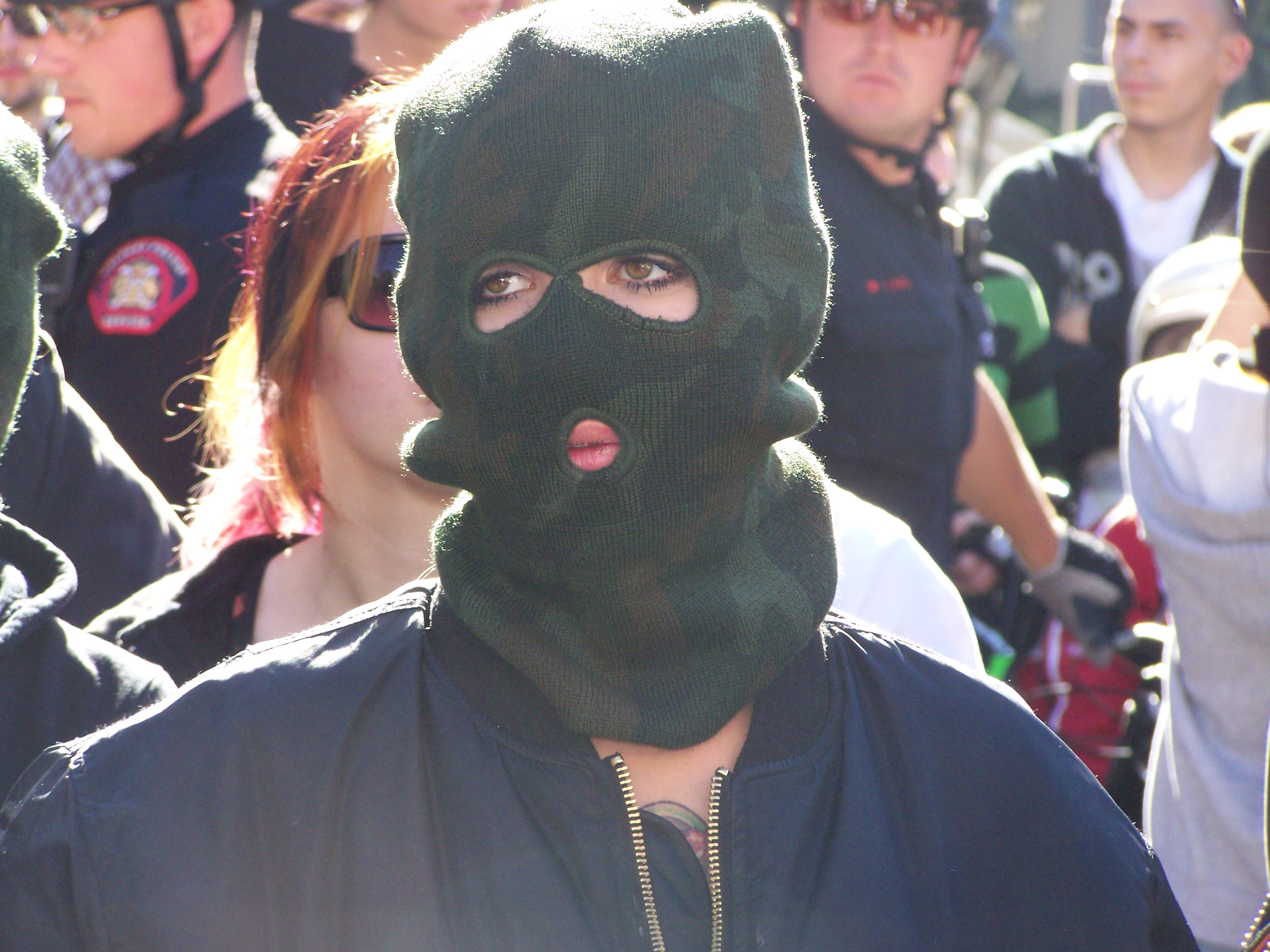 An unidentified girl wears a balaclava as part of a protest (said to be) against allowing Muslim women to cover their heads while voting. The protest was organized by the Aryan Guard, a neo-Nazi group in Alberta. The protest (and a larger counter protest) was staged at City Hall in Calgary, Alberta, Canada.